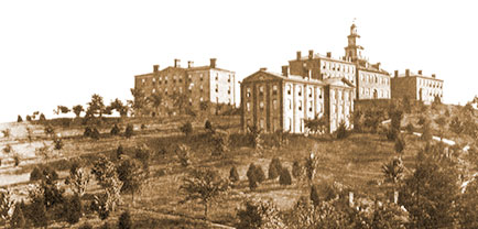 Photograph of The Hill at the University of Tennessee, taken in the 1800s.